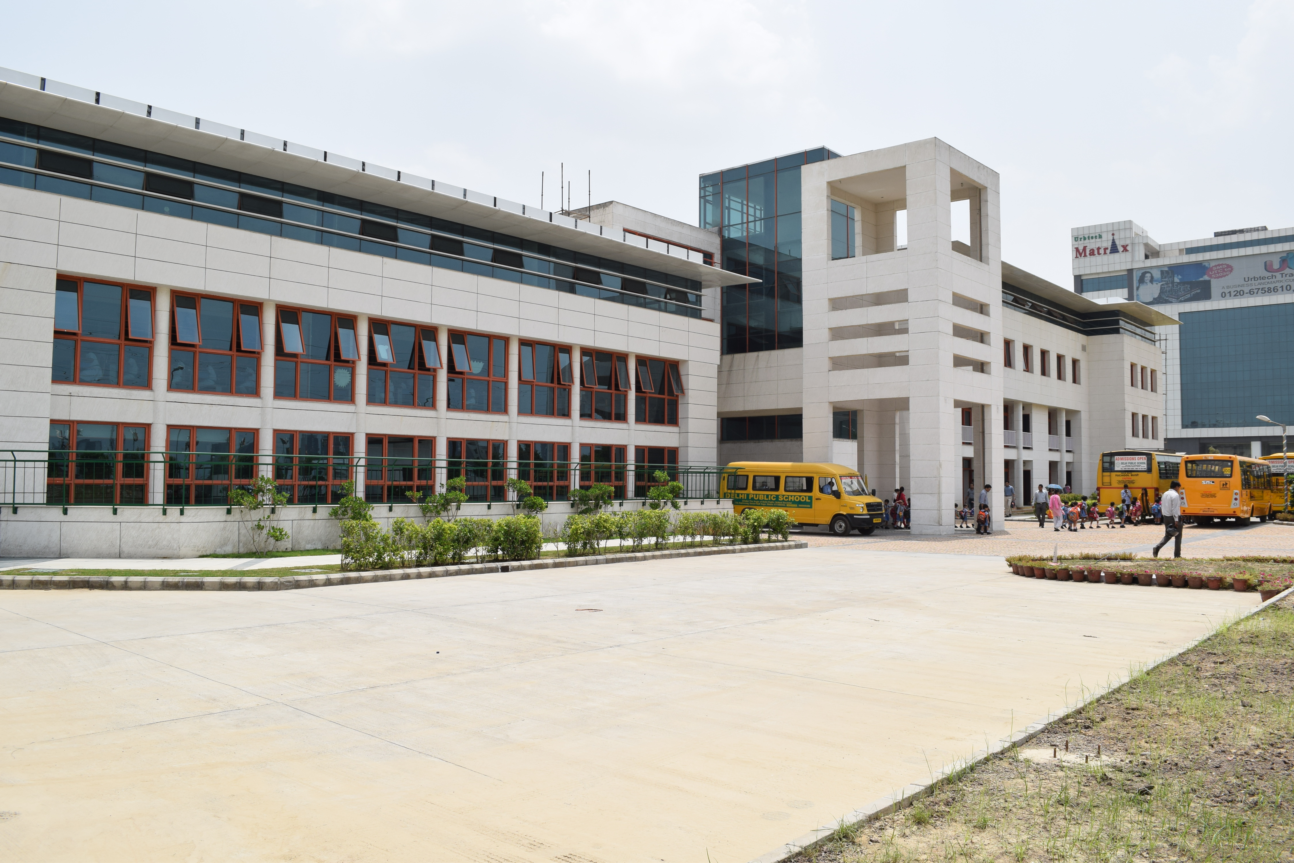 Delhi Public School Expressway Gautam Bhuddh Nagar NOIDA